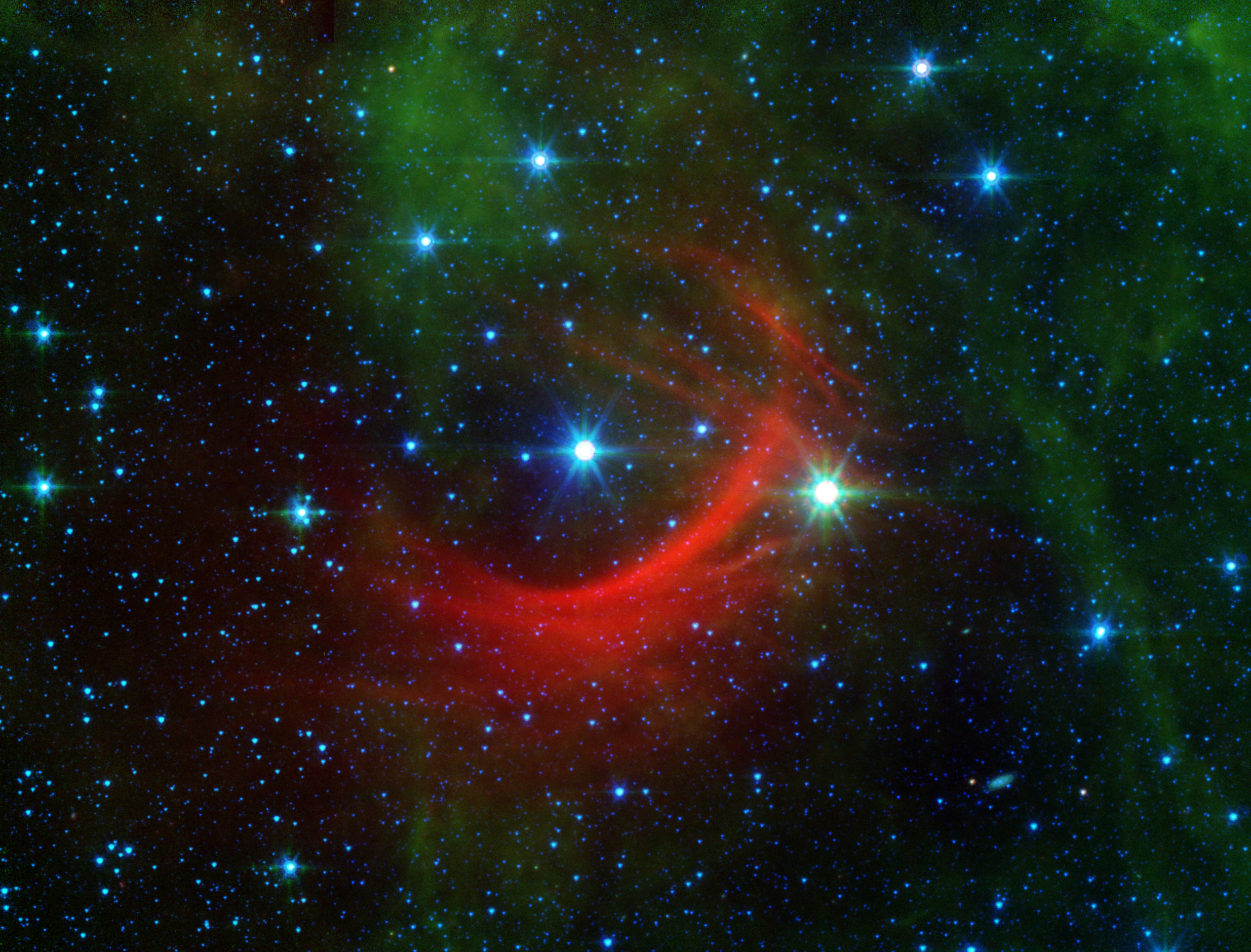 Kappa Cassiopeiae, or HD 2905 to astronomers, is a runaway star—a massive, hot supergiant gone rogue. What really makes the star stand out in this image is the surrounding, streaky red glow of material in its path. Such structures are called bow shocks, and they can often be seen in front of the fastest, most massive stars in the galaxy. Bow shocks form where the magnetic fields and wind of particles flowing off a star collide with the diffuse, and usually invisible, gas and dust that fill the space between stars. How these shocks light up tells astronomers about the conditions around the star and in space. Slow-moving stars like our sun have bow shocks that are nearly invisible at all wavelengths of light, but fast stars like Kappa Cassiopeiae create shocks that can be seen by Spitzer’s infrared detectors. Incredibly, this shock is created about 4 light-years ahead of Kappa Cassiopeiae, showing what a sizable impact this star has on its surroundings.